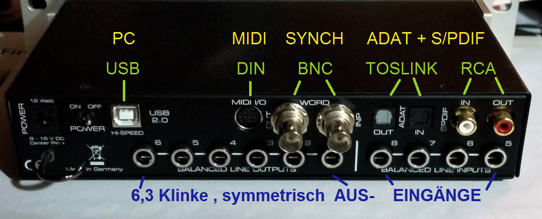 rear side of a professional audio interfaces´with connectors for PC, MIDI, S/PDIF und ADAT